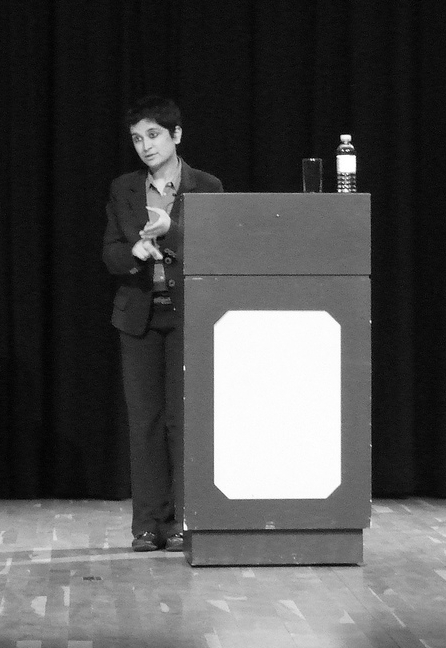 Shami Chakrabarti at Humber Mouth on 28 June 2007